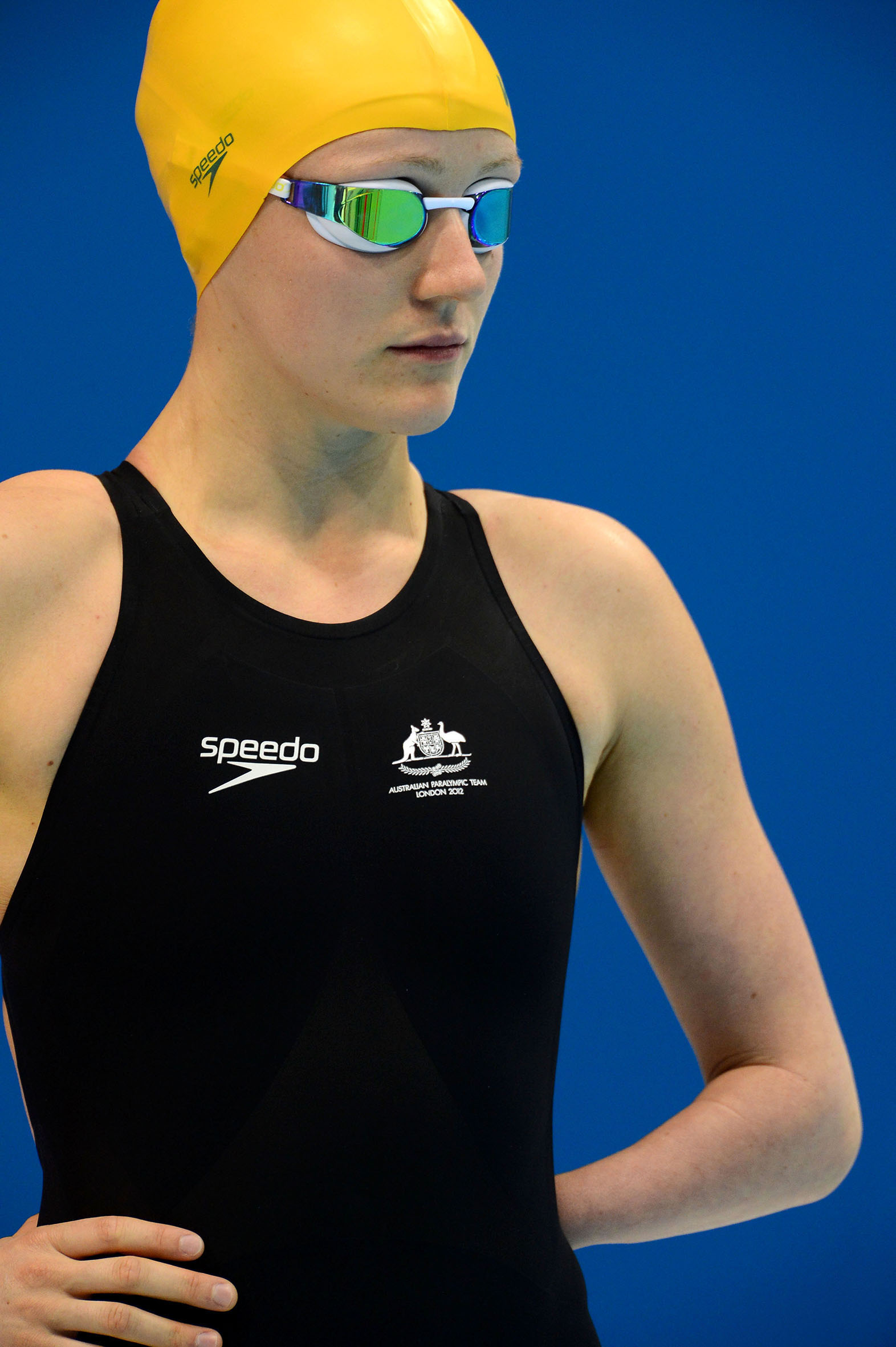 Photograph of Australian Paralympic team member Annabelle Williams at the 2012 Summer Paralympic Games in London